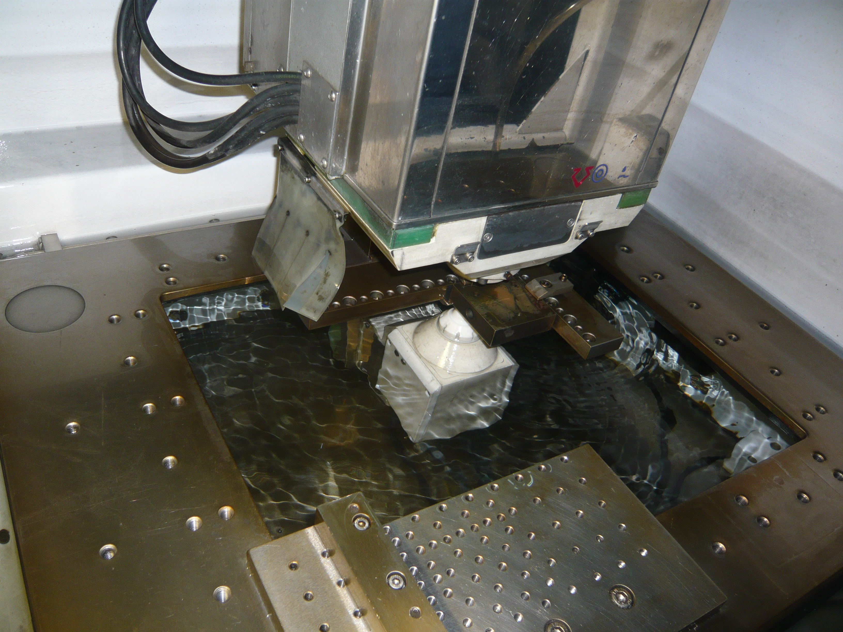 End stage of a Wire-cut EDM (Electrical discharge machining) process.